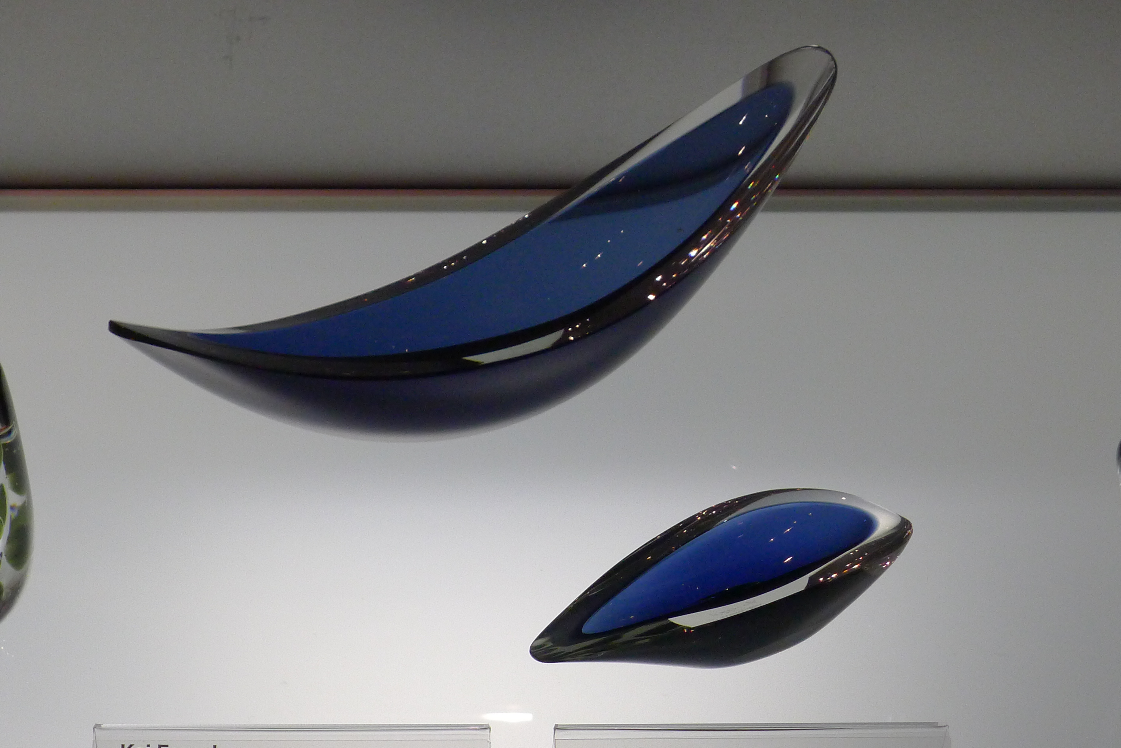 Art object by Kaj Franck